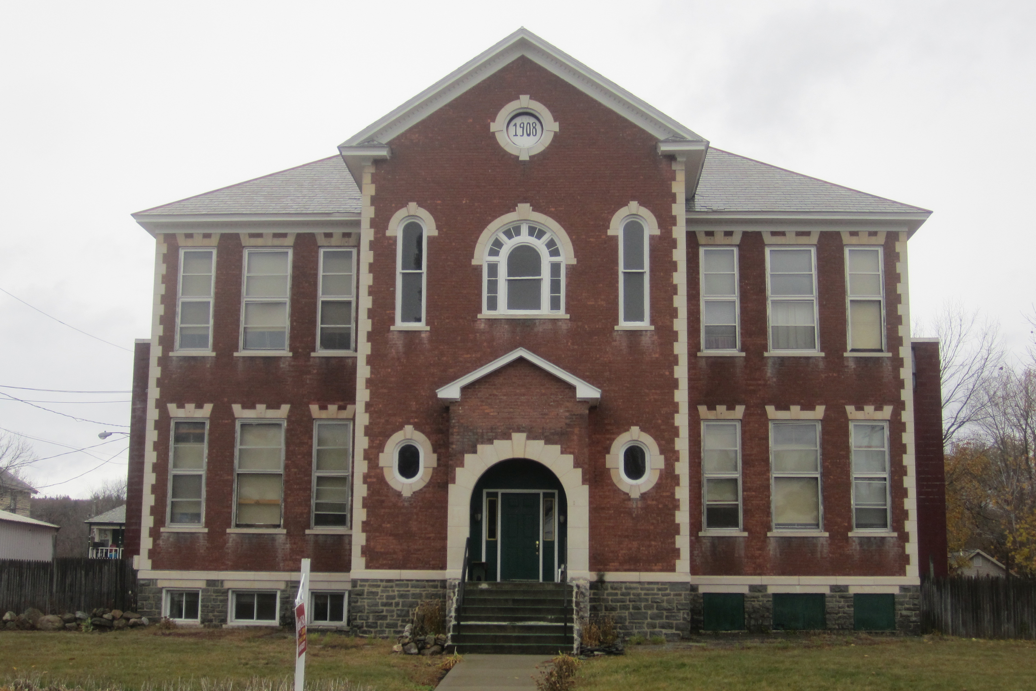 Palmer Avenue School. 611 Palmer Avenue, Corinth NY. Designed by R. Newton Brezee in 1908.